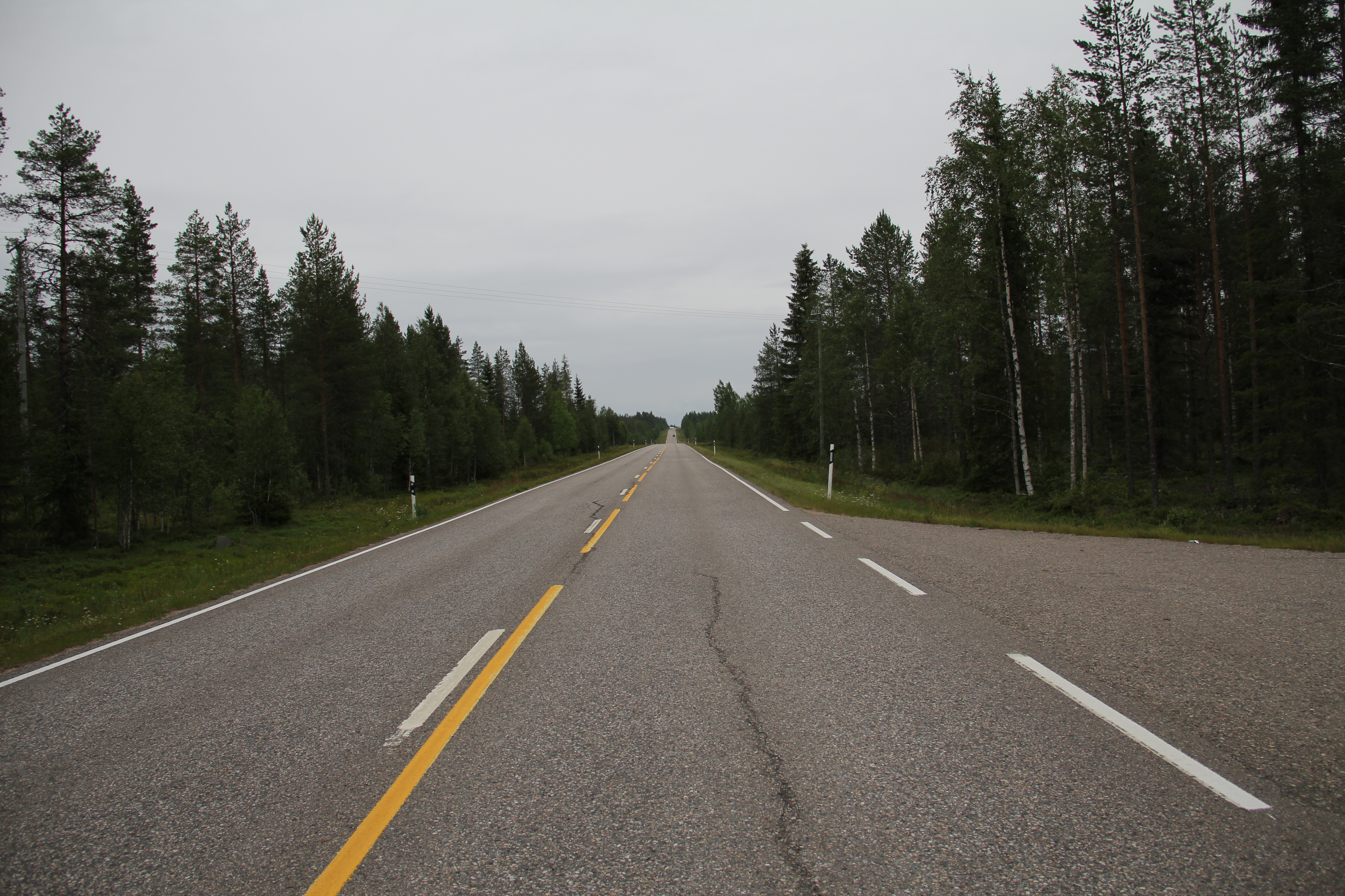 National road 2nd class nr 78, near Karhumäki, Puolanka Finland.